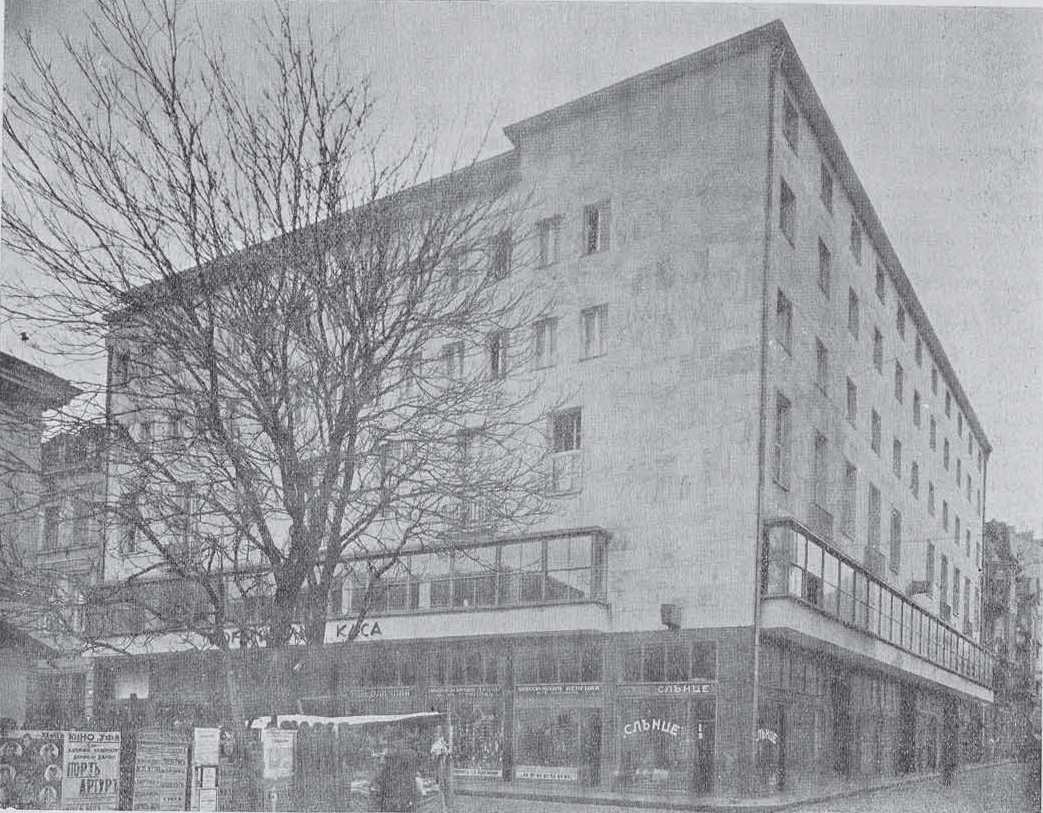 Hall of Macedonian culture in Sofia